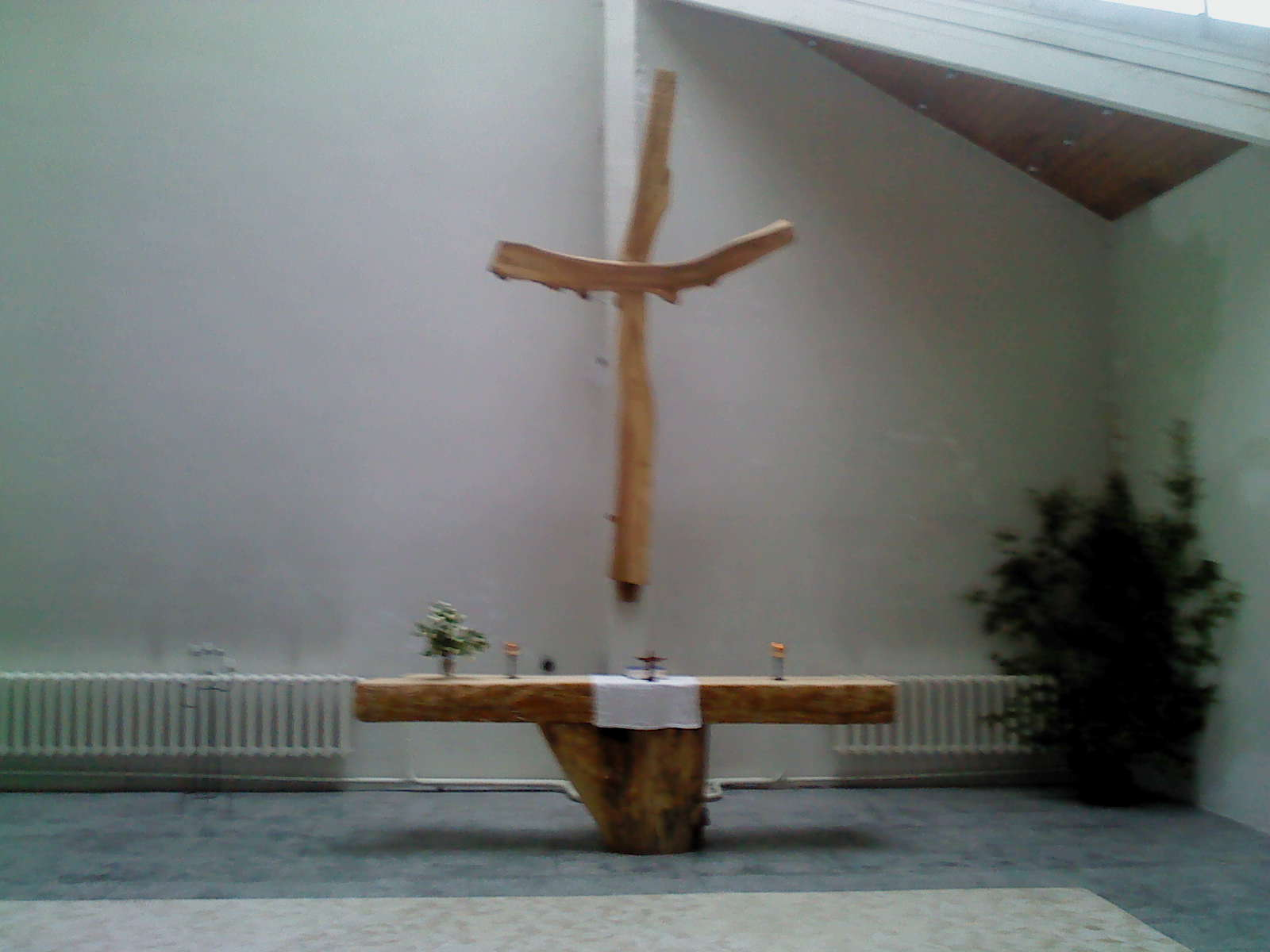 Altar of Harkujärve church, near Tallinn, in Estonia